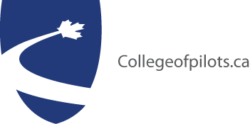 College of Pilots Logo english